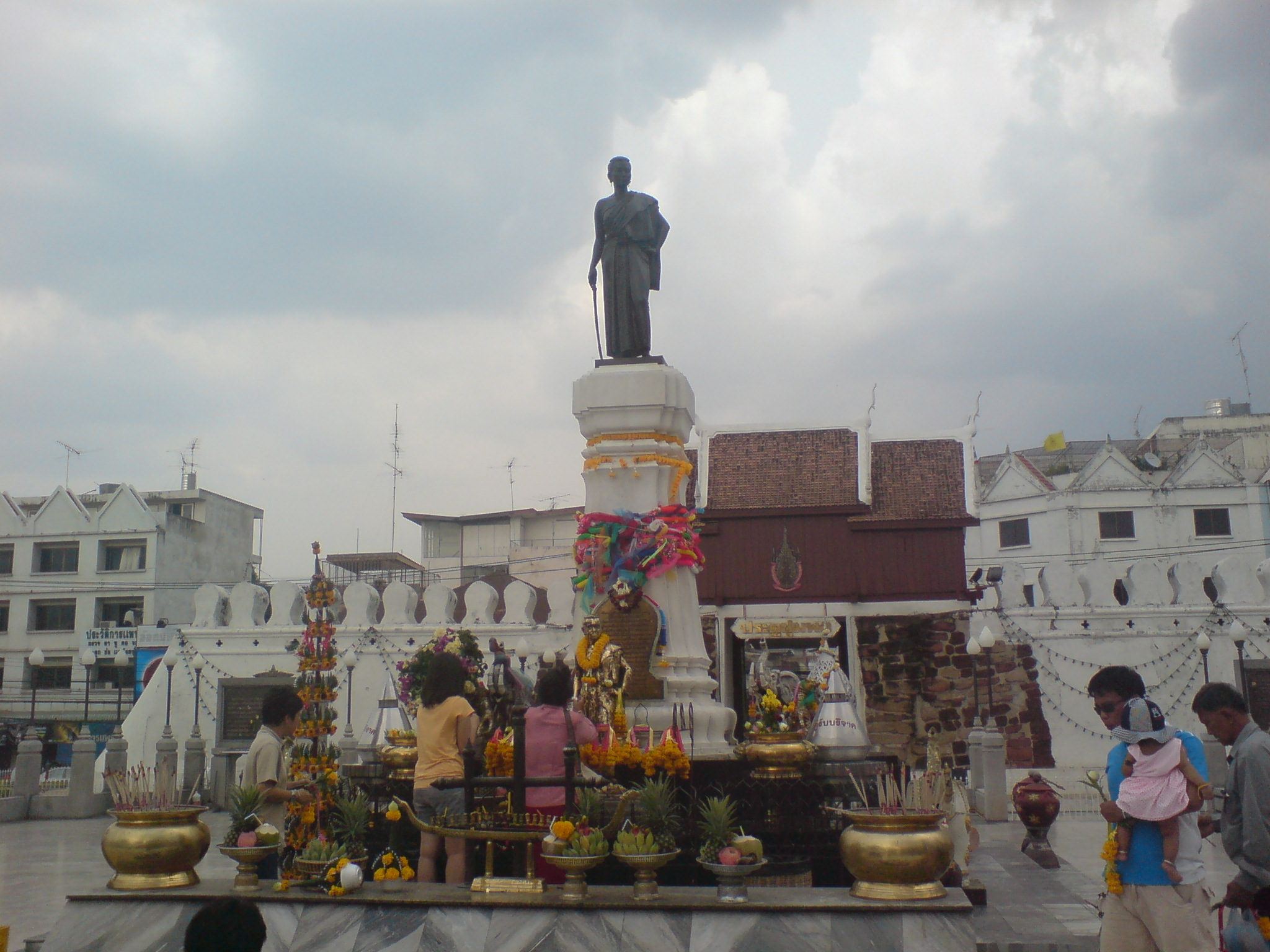 Yamo with Chomphon Gate in the background. The Statue of Thao Suranaree in Nakhon Ratchasima. The Chomphon gate can be seen in the background, Nakhon Ratchasima.